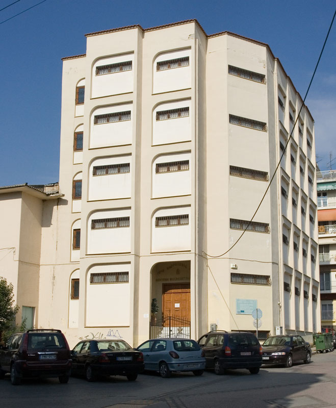 External view, image from the Ecclesiastical Museum, Drama, East Macedonia, Greece